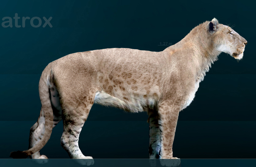 Graphical reconstruction of Panthera leo atrox the "American lion" based on bony structure and paleontological texts